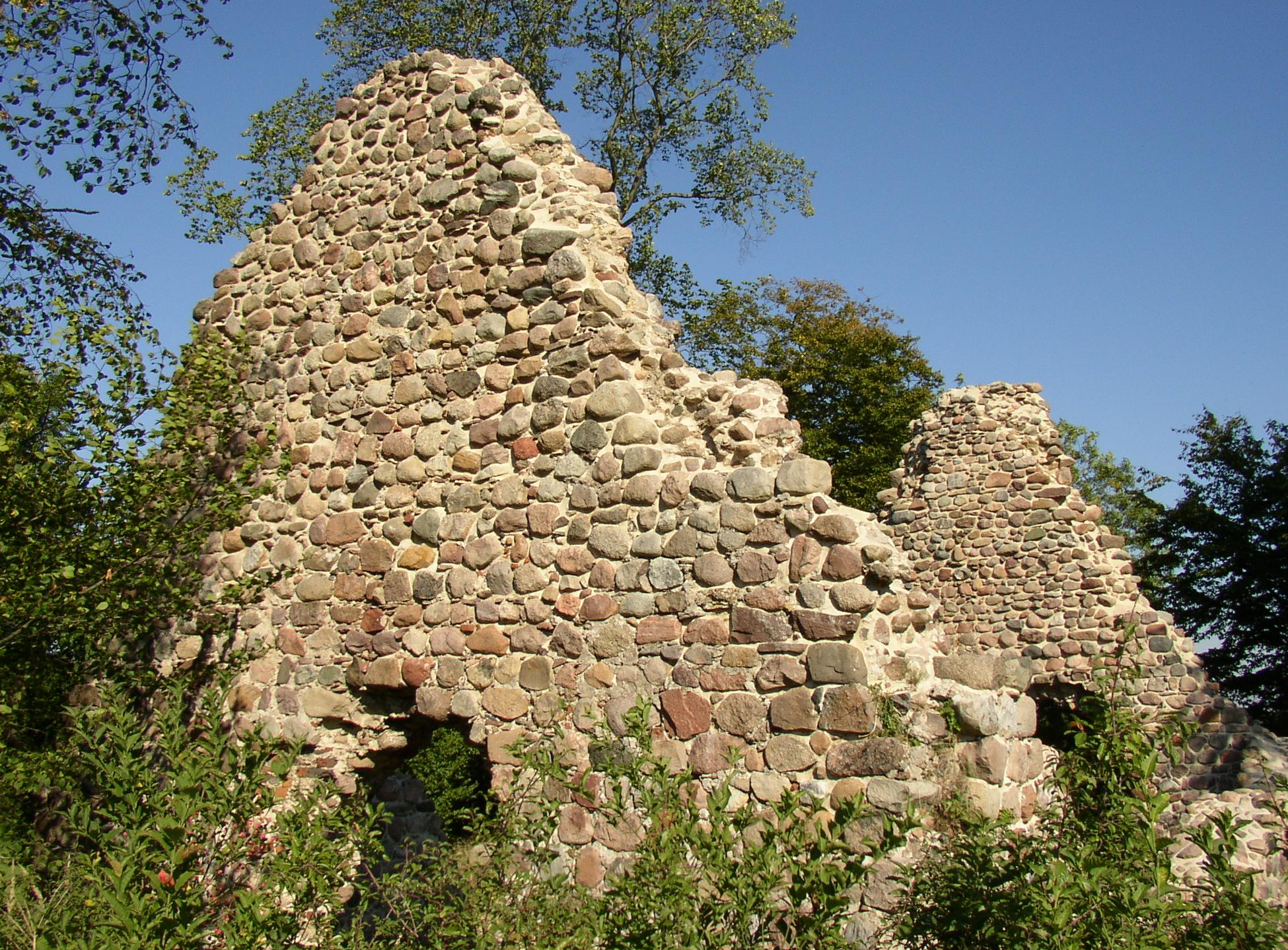 Church ruin in Moltzow in Mecklenburg-Western Pomerania, Germany